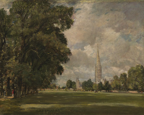 Salisbury Cathedral from Lower Marsh Close, 1820, Andrew W. Mellon Collection, National Gallery of Art, Washington, D.C. The couple pictured strolling through the Close's avenue of elms is likely John Fisher, Archbishop of Salisbury and Constable's leading patron, and his wife.